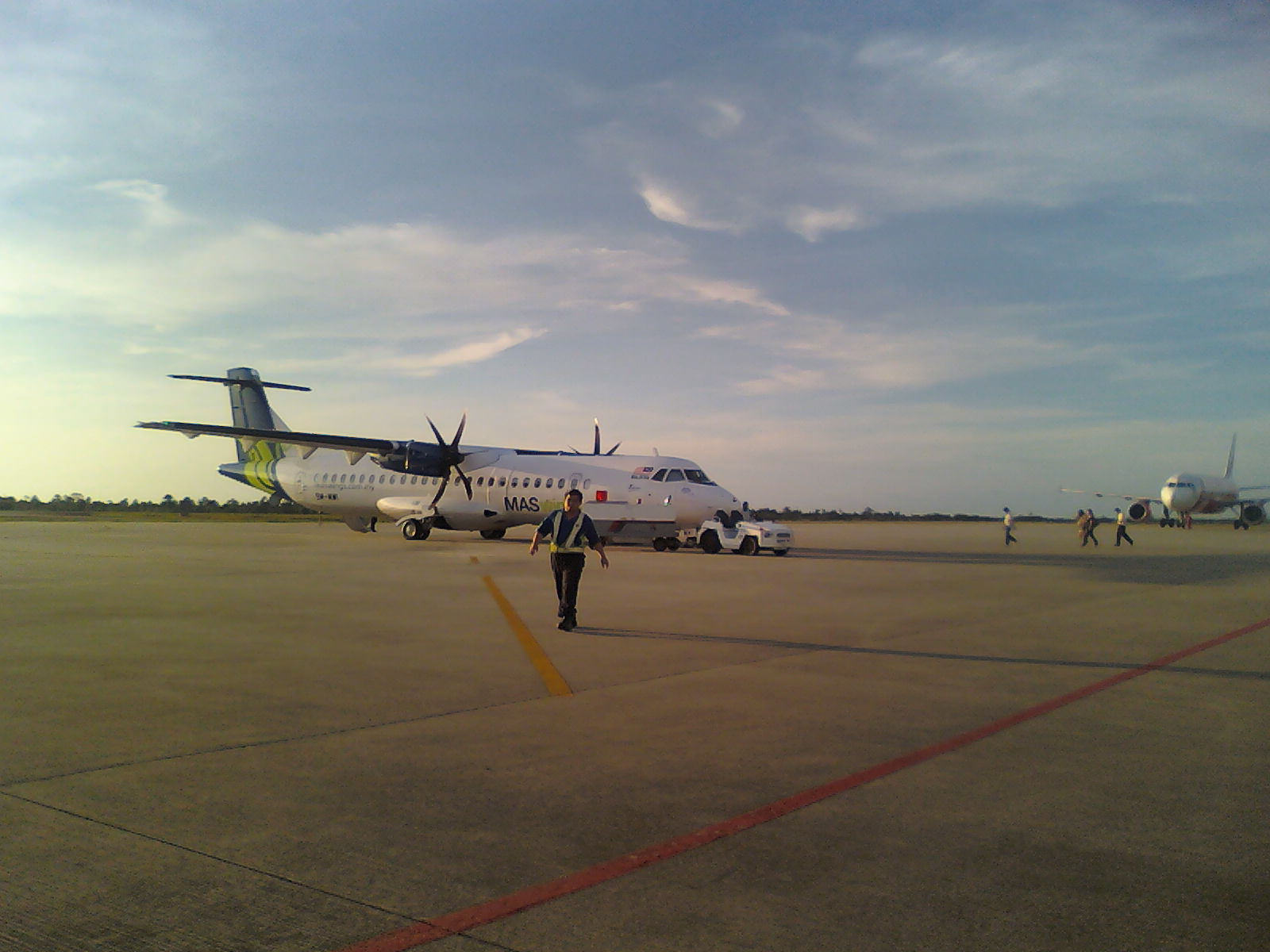 MASwings ATR 72-500(212A) ready for departure.